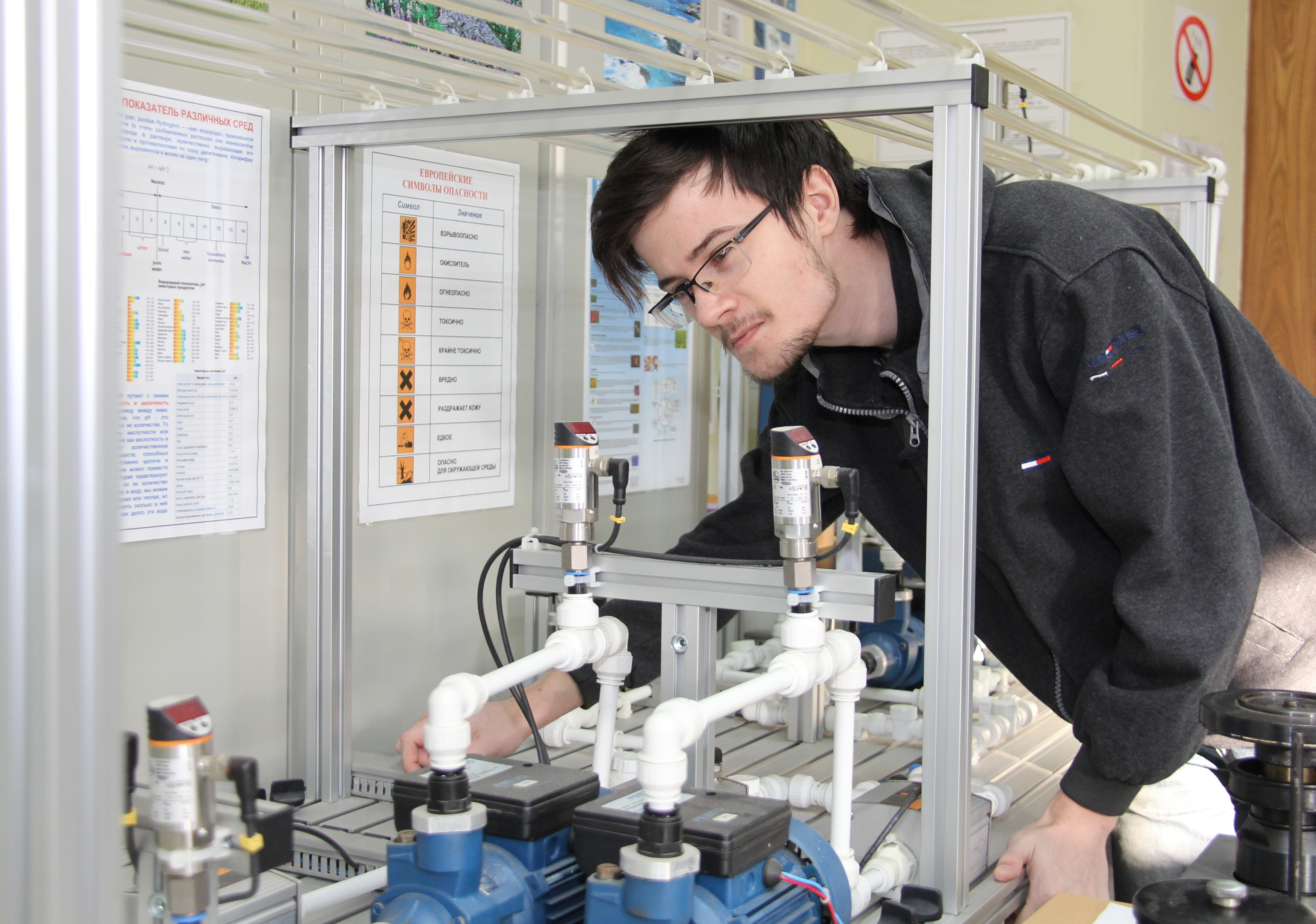 Hydraulic laboratory